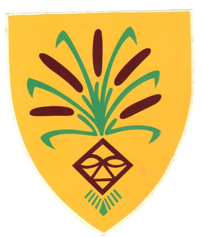 Scanned badge image from a Commemorative Brochure